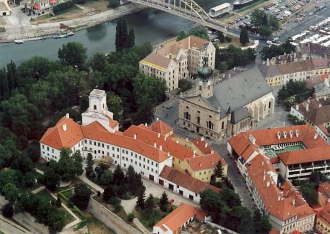 Győr, Hungary, aerialphotography